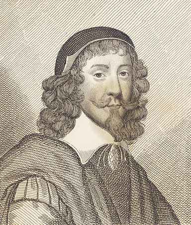 Oliver St John (c1598-1673)